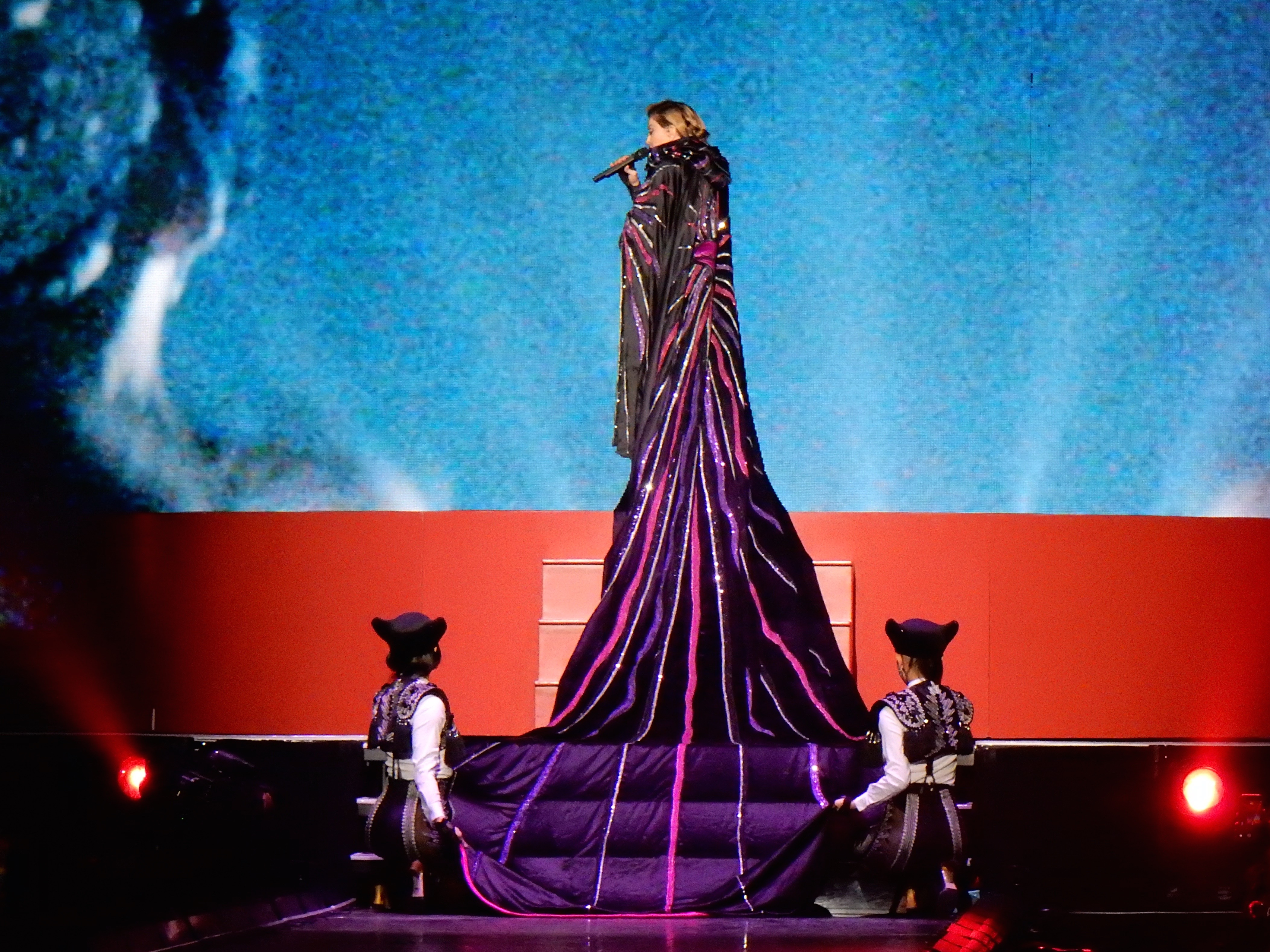 Madonna - Rebel Heart Tour 2015 - Paris 2